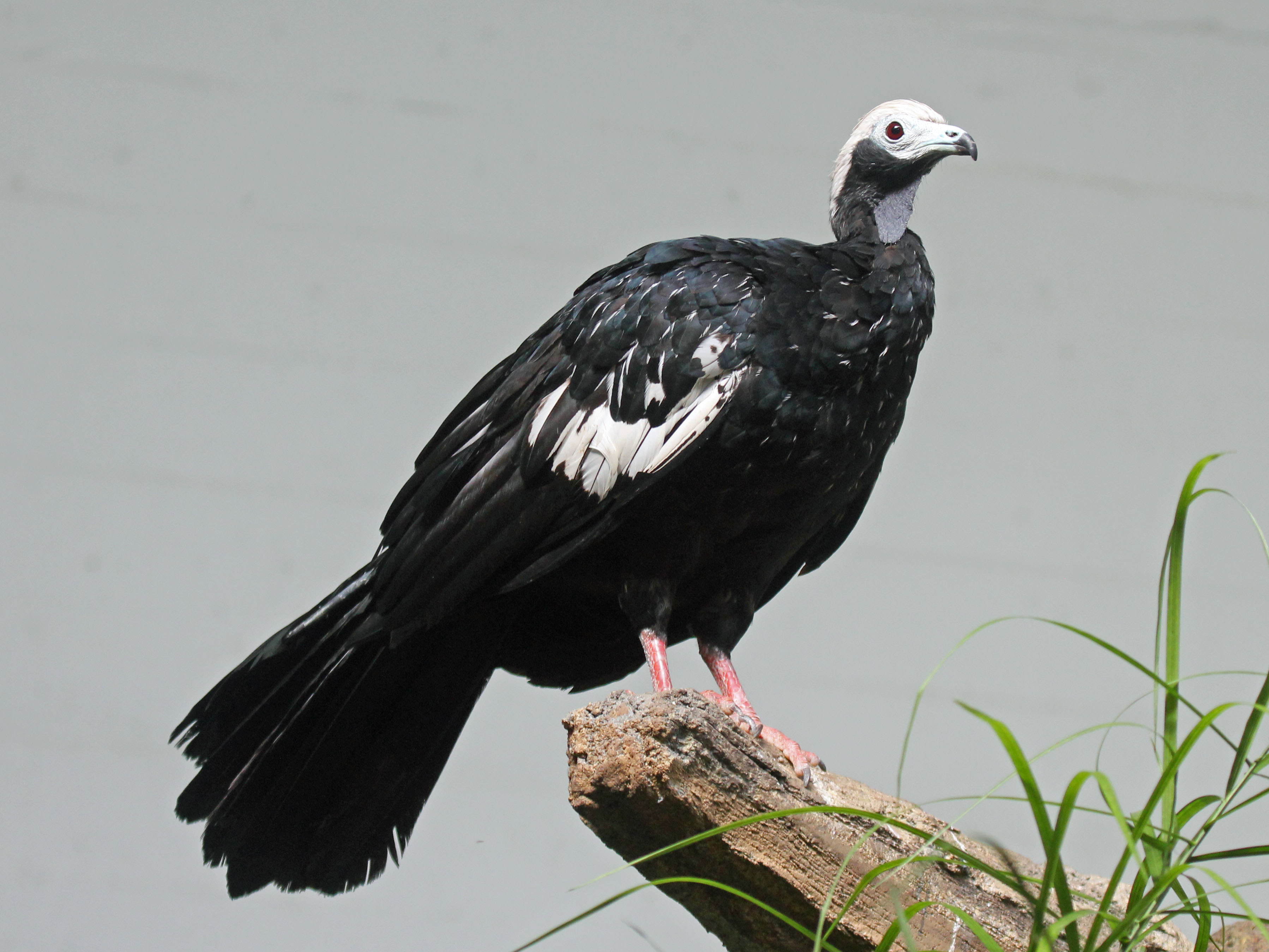 Blue-throated Piping Guan (Pipile cumanensis) - San Francisco Zoo